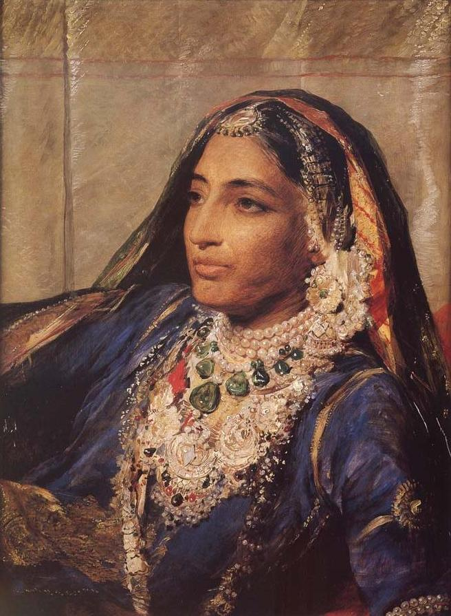 Jind Kaur aka Jindan, the wife on Maharaja Ranjit Singh, a very well known Sikh emperor of Punjab.